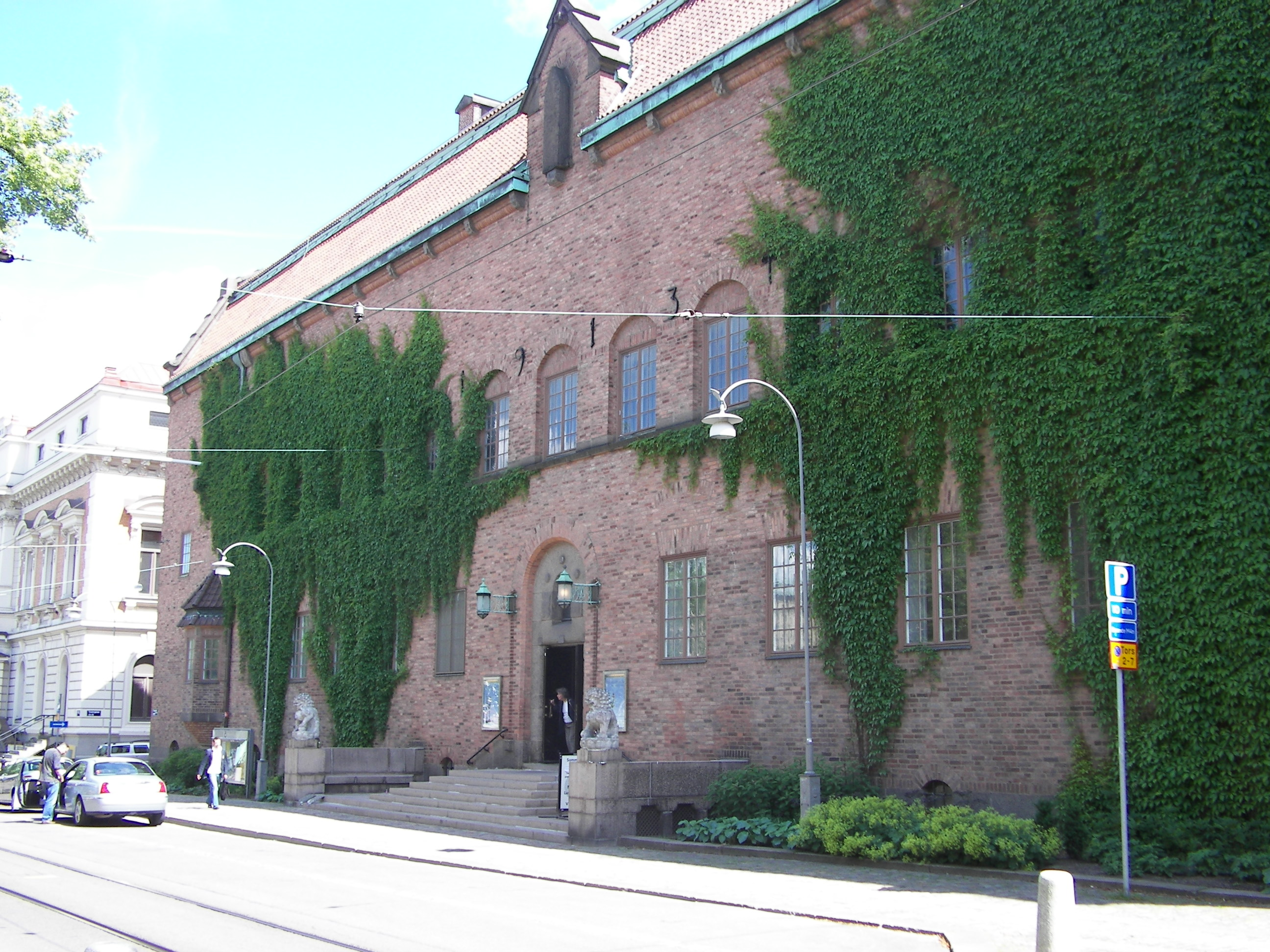 The Röhsska museum in Göteborg, Sweden.